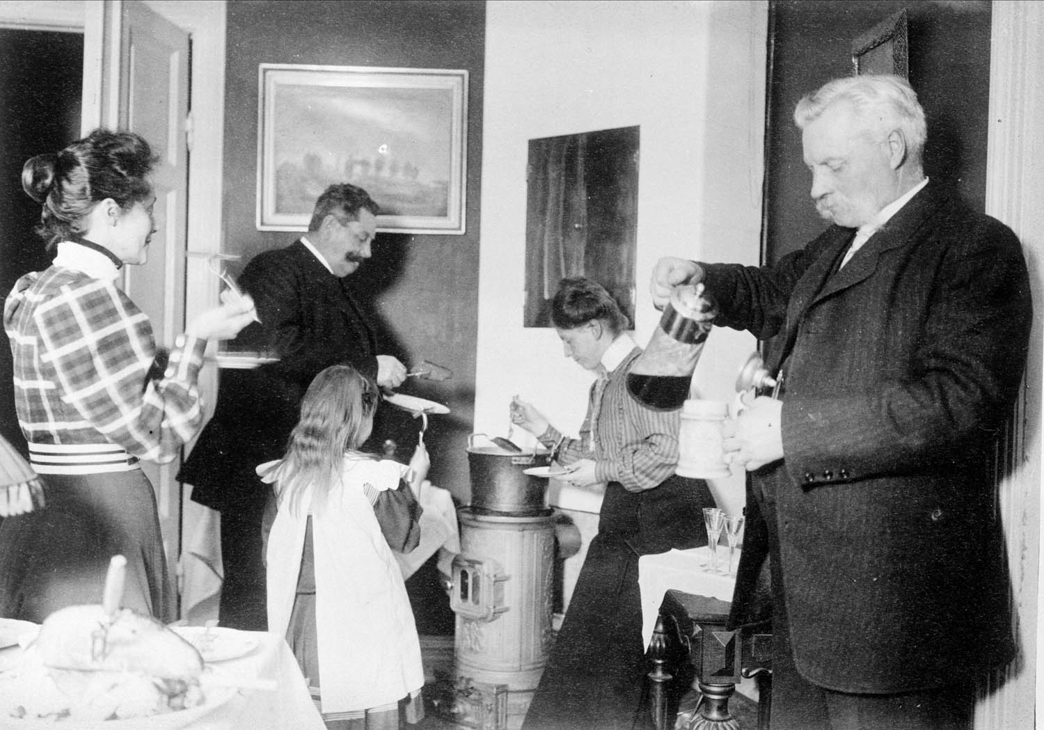 Depicted place: Småland (Sverige (SE))